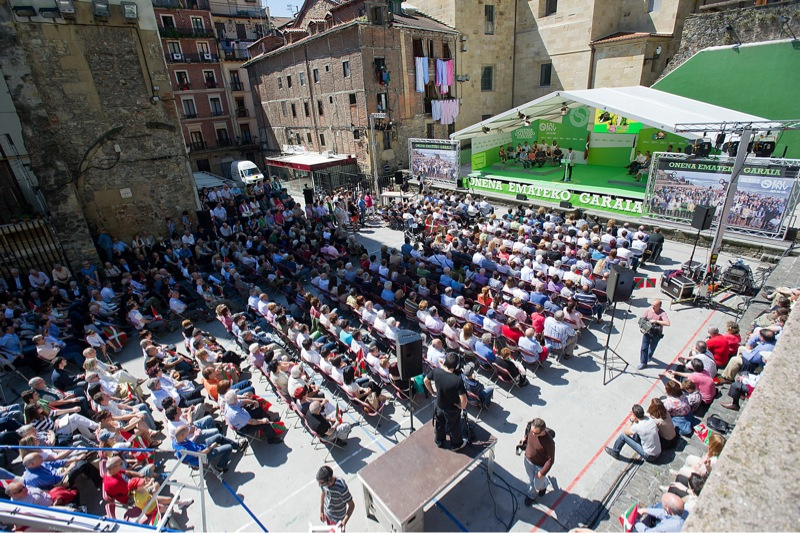 Trinitate square in Donostia.